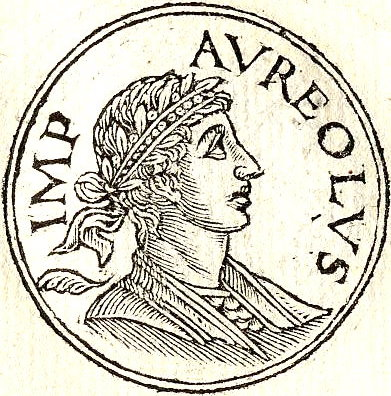 Fictius portrait of Aureolus (died 268) was a Roman military commander and would-be usurper. He was one of the so-called Thirty Tyrants who populated the reign of the Emperor Gallienus.